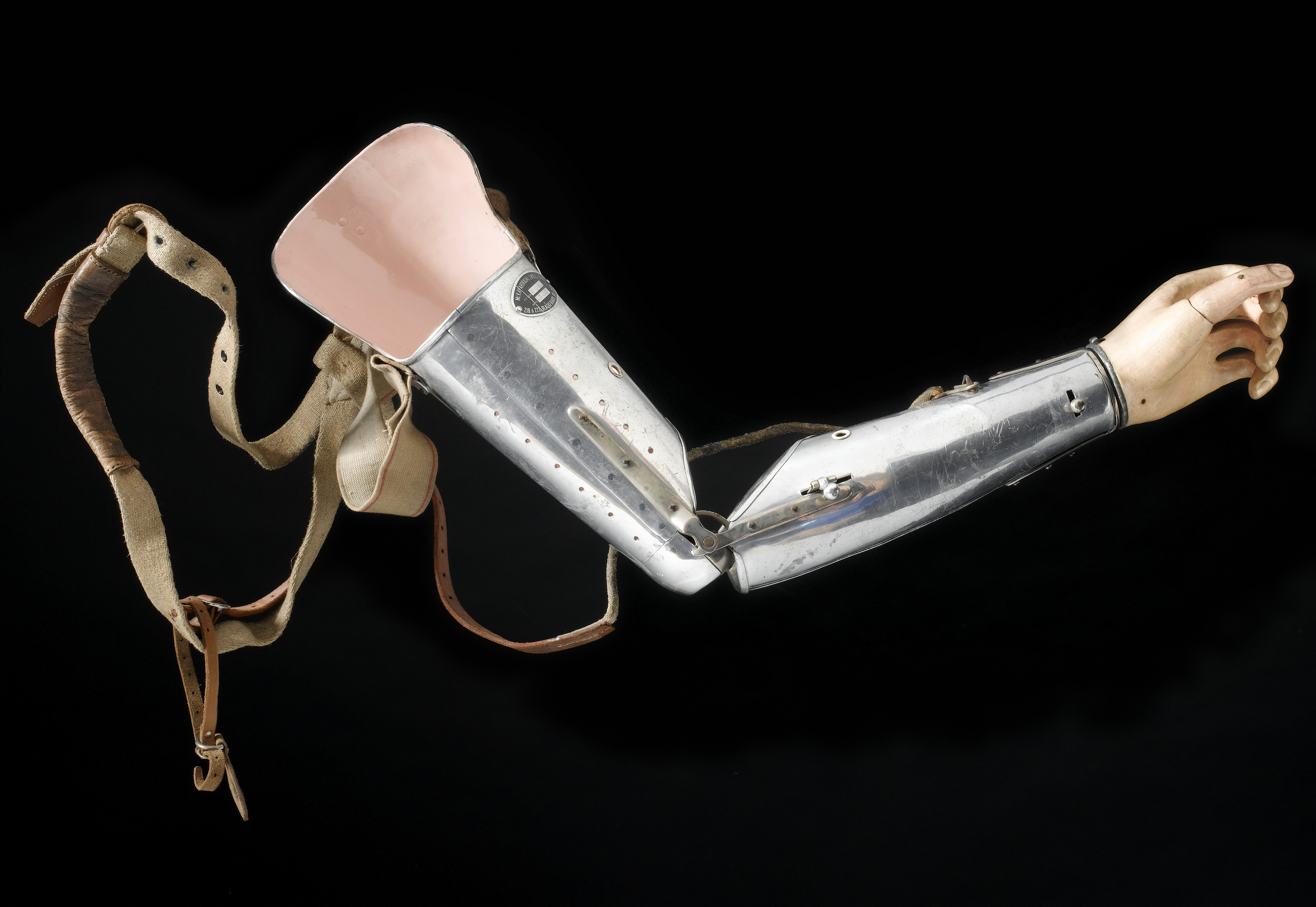 Artificial left arm, London, England, 1927 Made from aluminium, this prosthetic left arm has a canvas coated hand to give the appearance of a gloved hand. The fingers of the hand are set in position. The joints of the arm are adjustable and the hand is removable. Aluminium was preferred to wood as it was much lighter and was more comfortable for the wearer. As such it is one of a new generation of metal limbs that appeared in the 1920s and which gradually replaced the predominantly wooden ones. The arm is strapped to the shoulder with padding. The McKay Prosthetic Limb Company who made this arm was one of a number of companies set up during and immediately after the First World War. They were seeking lucrative government contracts to supply soldiers who had lost limbs in the conflict. Among British forces alone, over 41,000 men lost one or more limbs. Wellcome Images